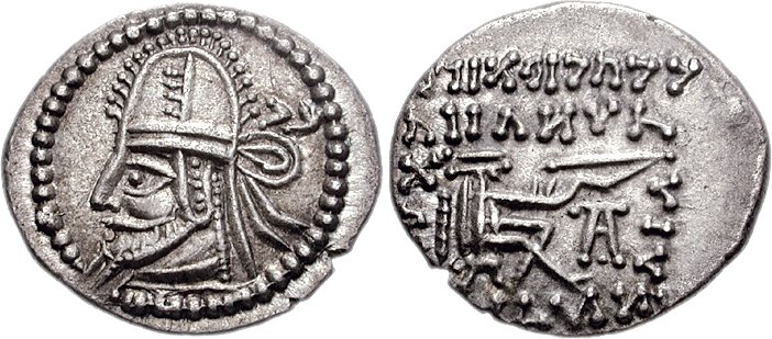 Coin of the Parthian king Artabanus IV